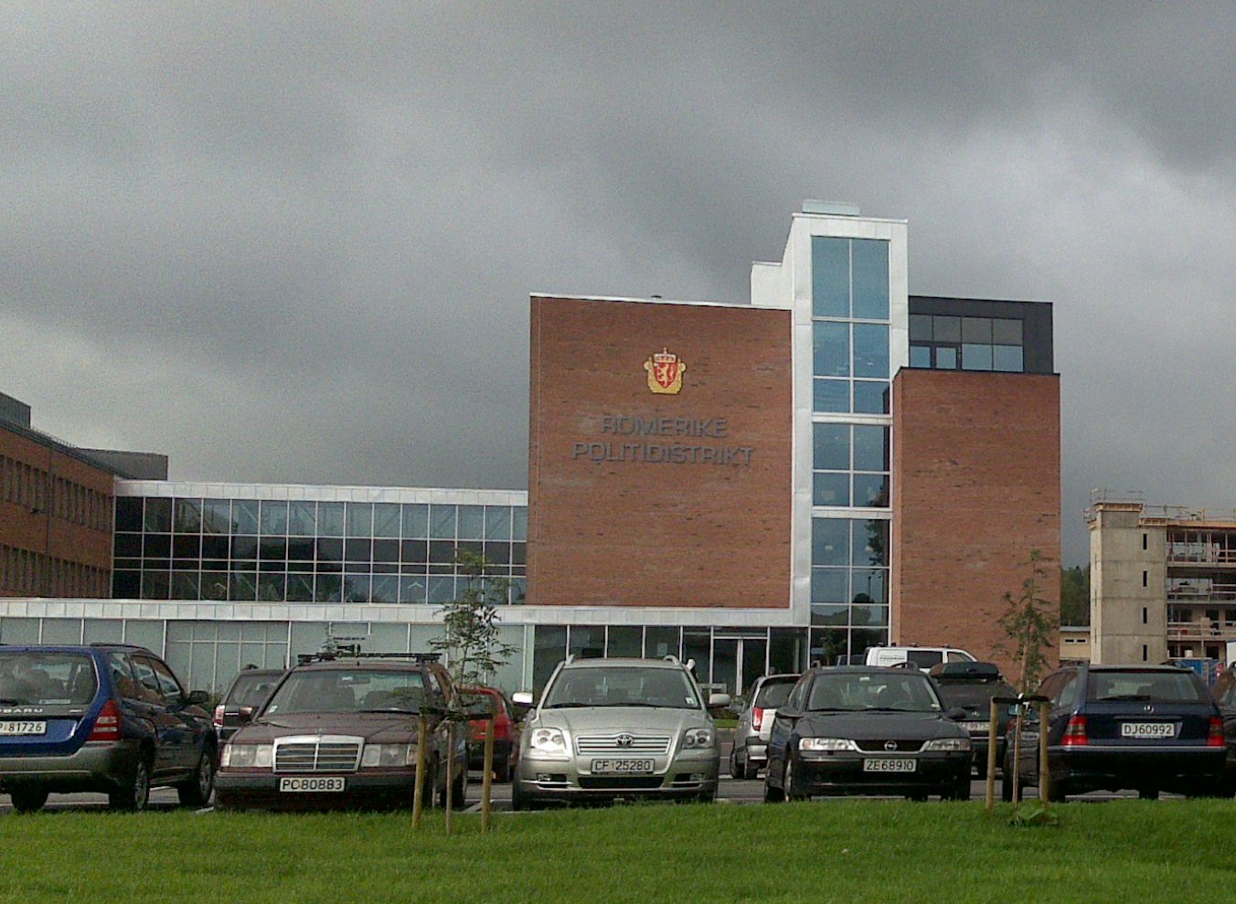 Headquarters of Romerike Police department, Lilleström, Norway.